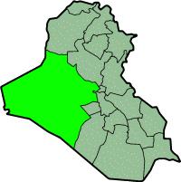 Location of Iraqi province Al Anbar.